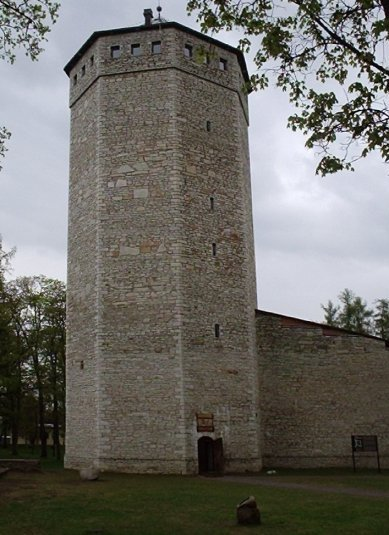 Castle in Paide